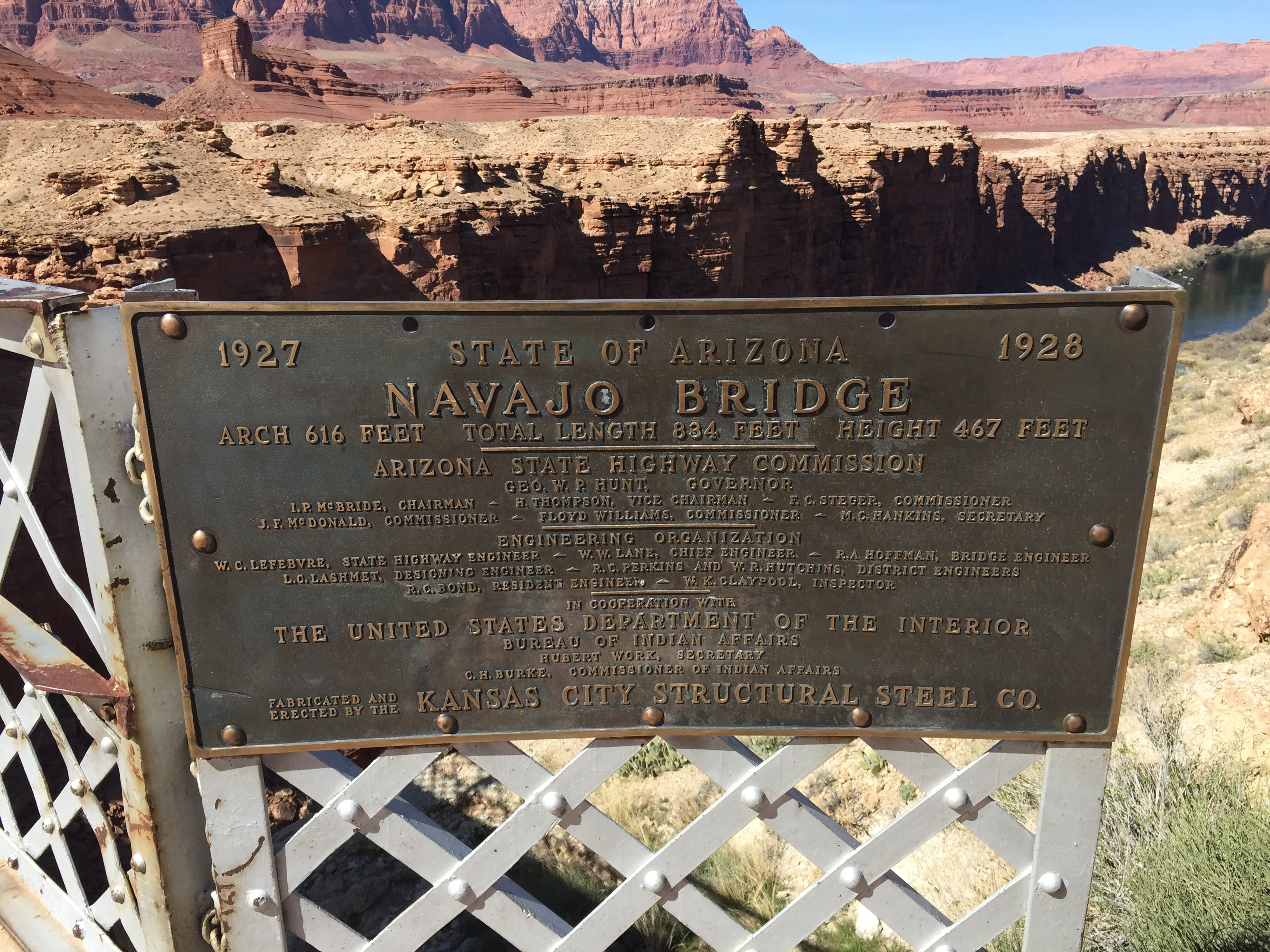 Plaque dedicating the original Navajo Bridge (former U.S. Route 89A) in Marble Canyon, Arizona